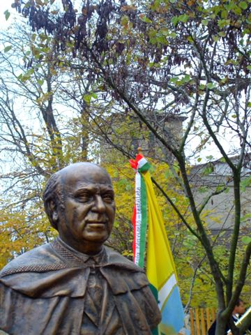 Bust of the Rev. Fejes Ádám in Aba, Hungary. Sculptor: Frigyes Janzer (*1939) in 2005